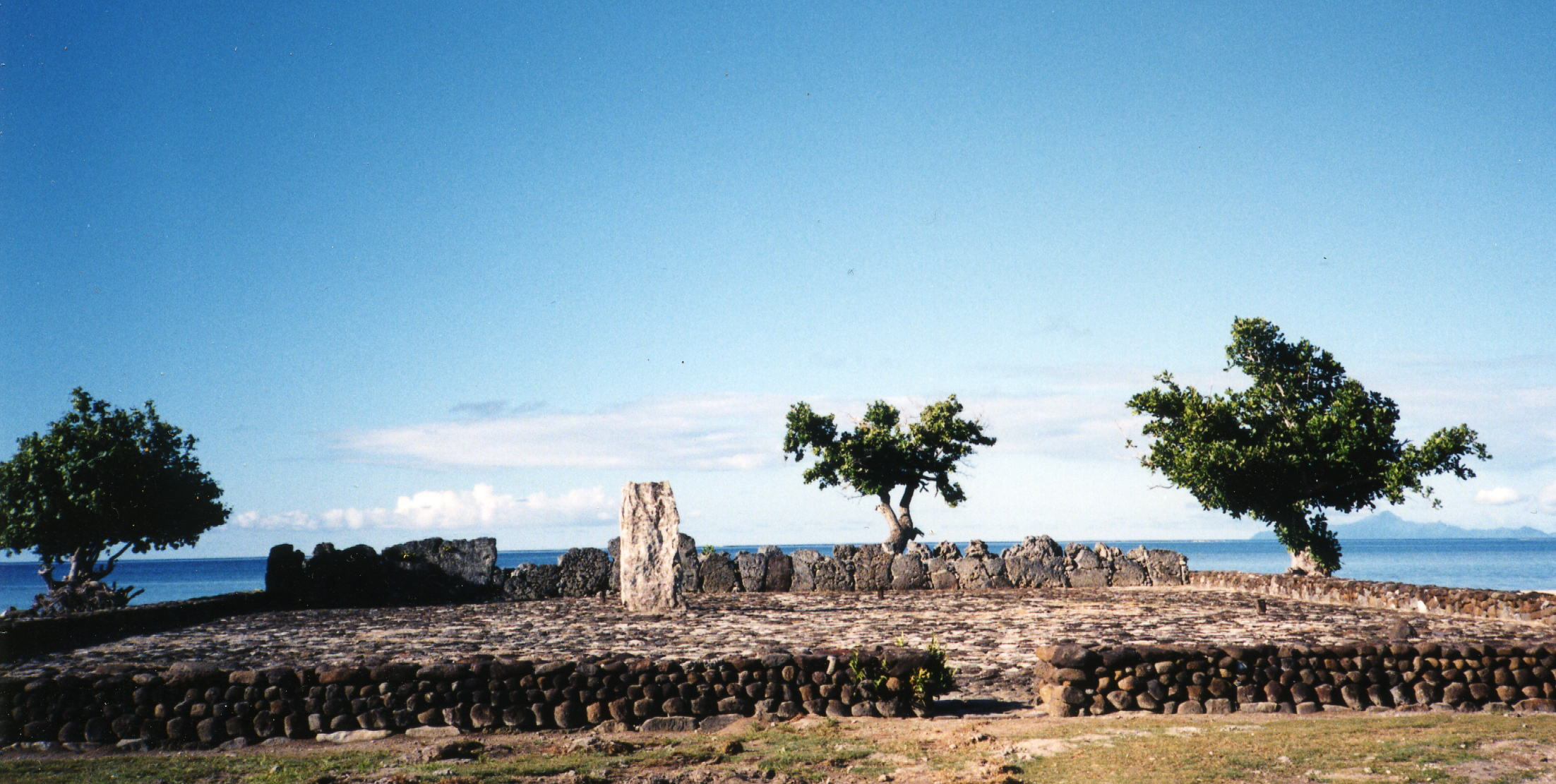 Marae Taputapuatea sur l'île de Raiatea (Polynésie française)/Taputapuatea marae, an ancient marae on the island of Raiatea, French Polynesia.